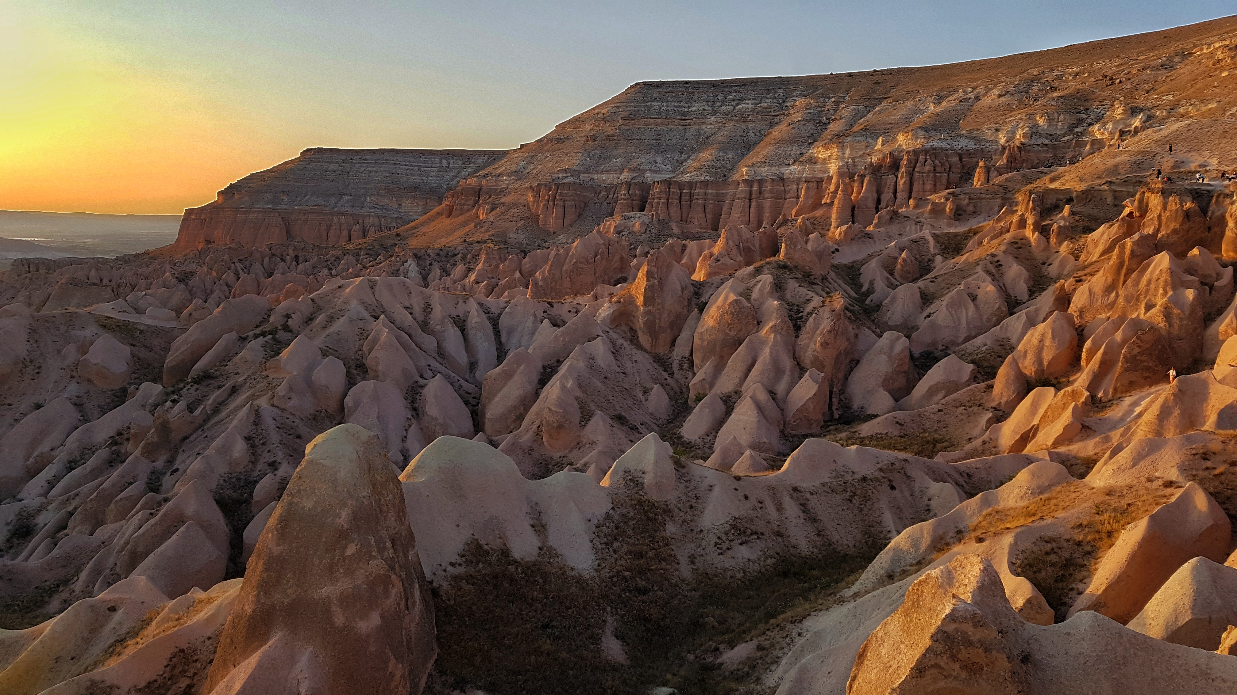 Göreme National Park is one of natural places that has fairy chimneys heavily. It is located in Nevşehir Province from in Turkey.